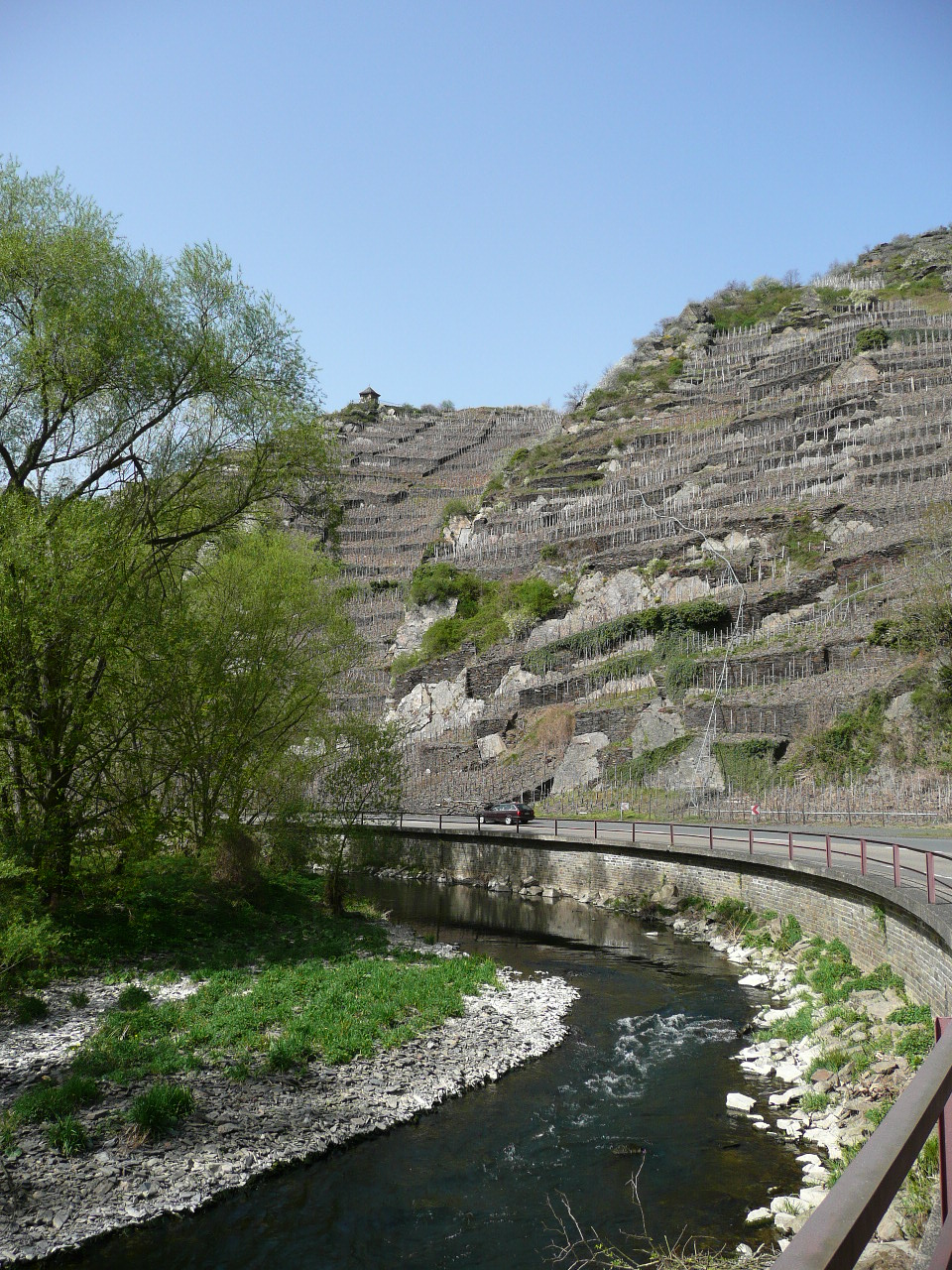 Ahr valley and wineyards near Mayschoss